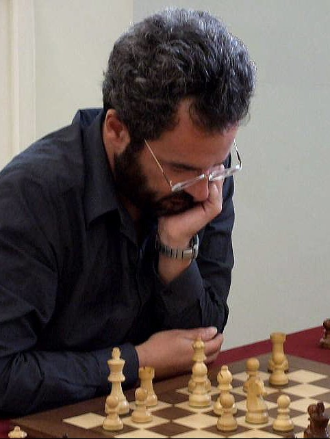 GM Alberto David - Round 6 of 4th EU Individual Open Ch., Liverpool World Museum, William Brown Street